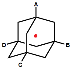 Chiral substituated adamantane